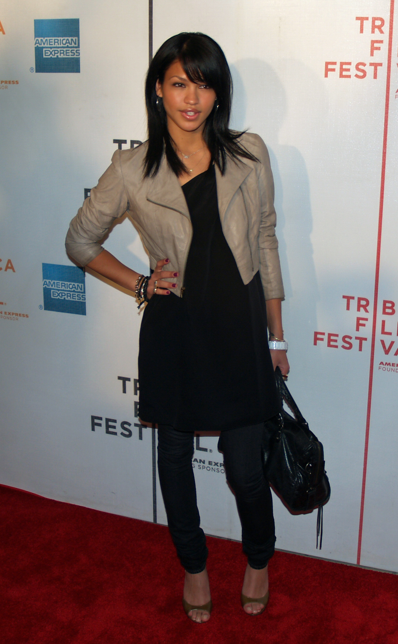 Cassie by David Shankbone